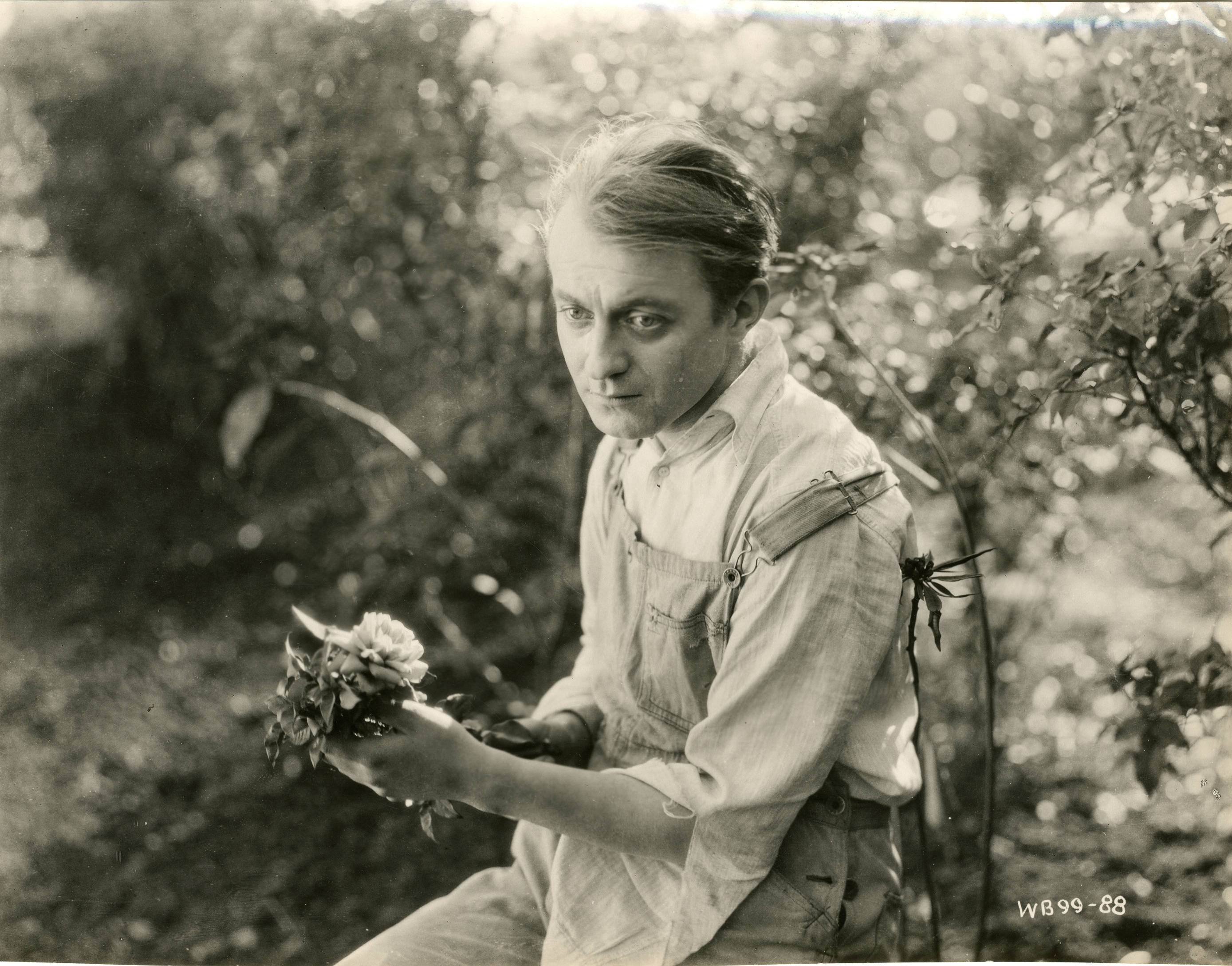 Taylor Graves in the American film The West~Bound Limited (1923). Subjects: actors, motion pictures